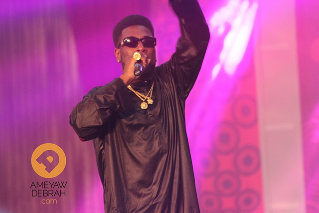 Burna Boy performing in Ghana